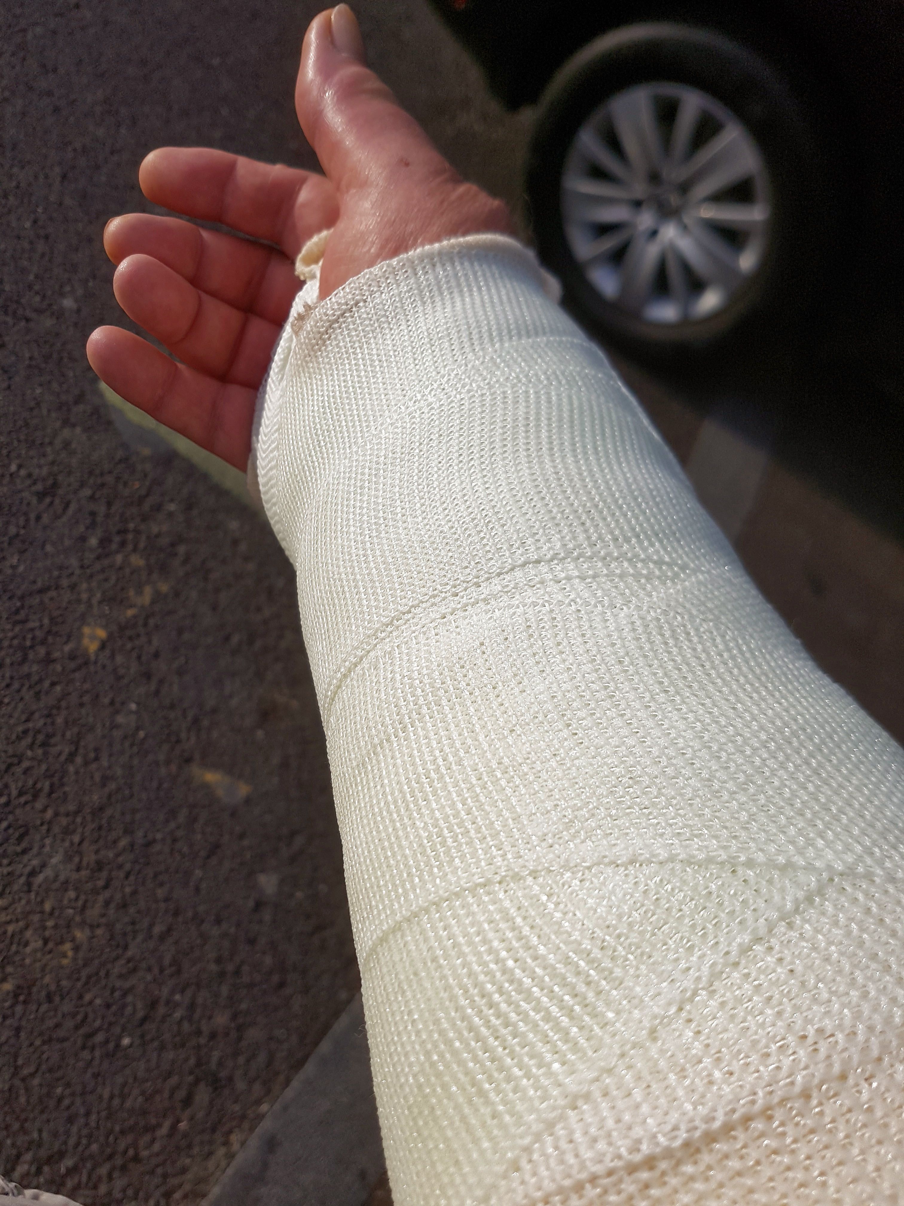 Resin bandage orthopedic cast over a broken wrist.Camera: Samsung Galaxy S7 Edge.Software: JPEG file lens-corrected, optimized and converted with DxO PhotoLab Elite, and further optimized with Adobe Photoshop CS2.